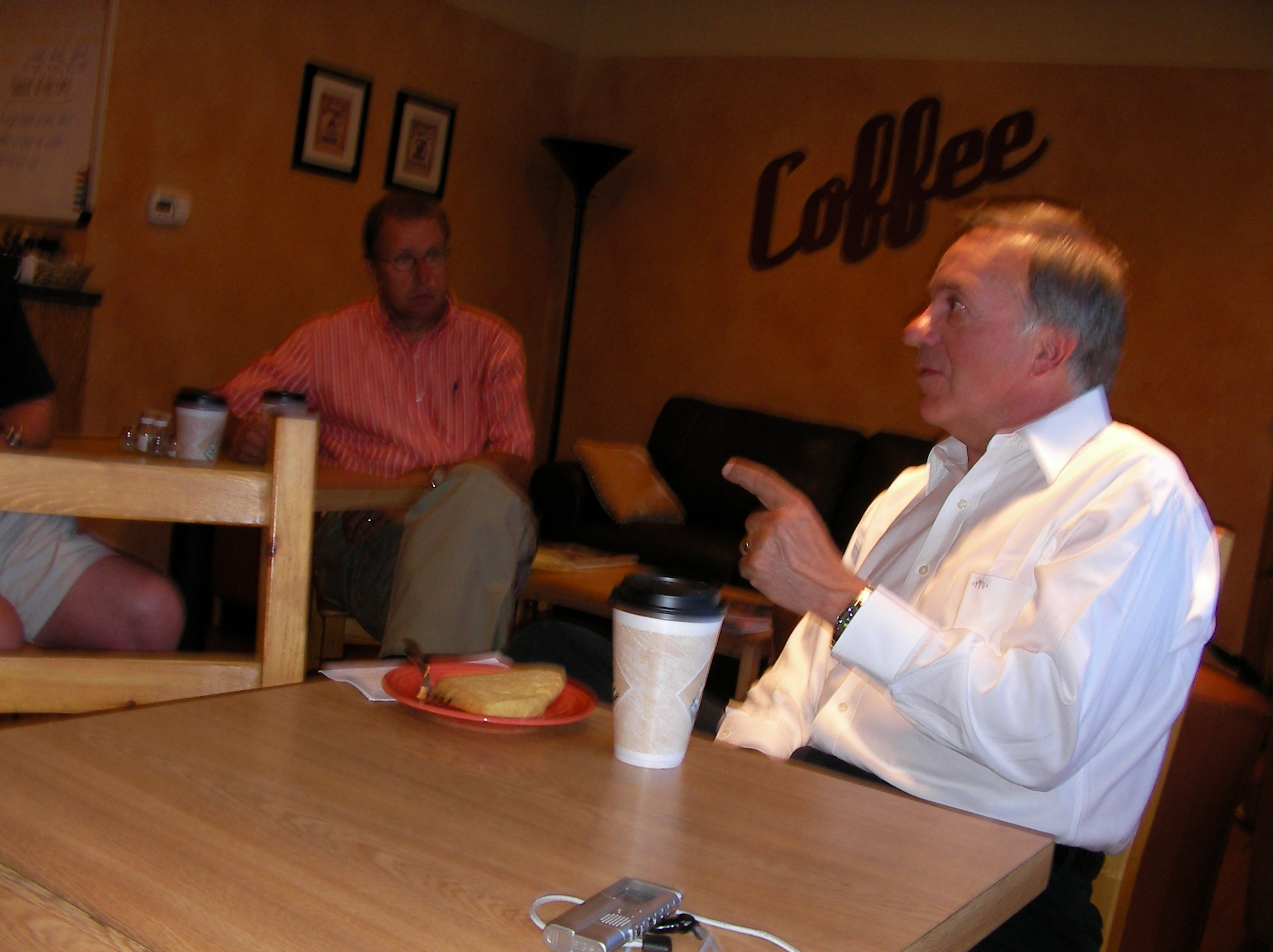 Iowa's premier political news site: Republican presidential candidate Tom Tancredo visits with Adel area residents July 16 at Cool Bean Coffee Bar in Adel.